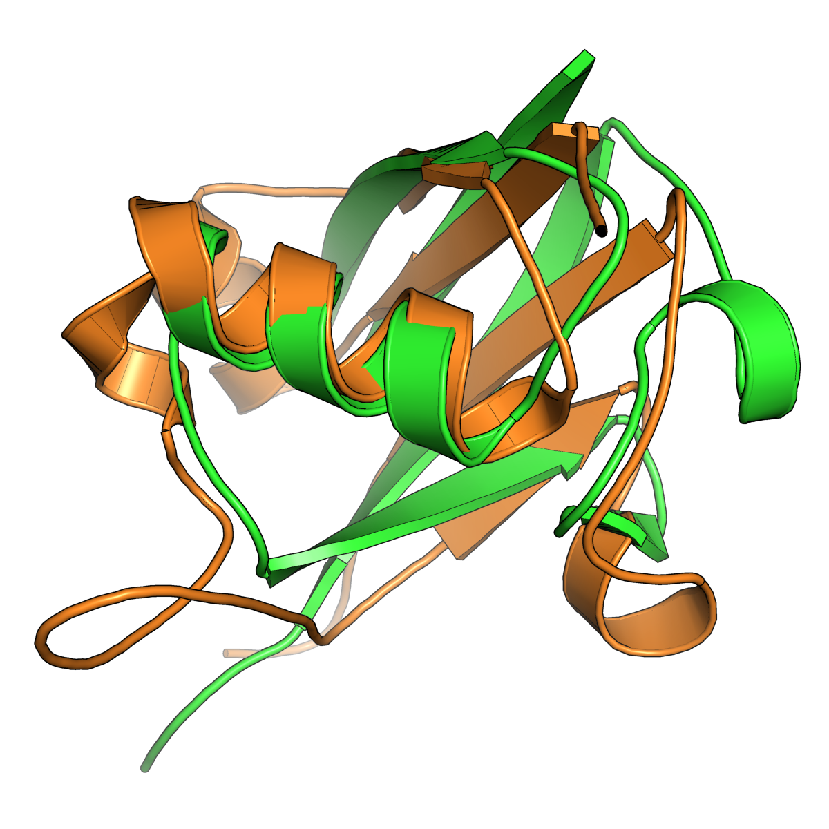 Superposition of ubiquitin (PDB: 1UBQ​, green) and small archaeal modifier protein SAMP1 (PDB: 2L52, orange) illustrating their structural similarity. Rendered using PyMOL.